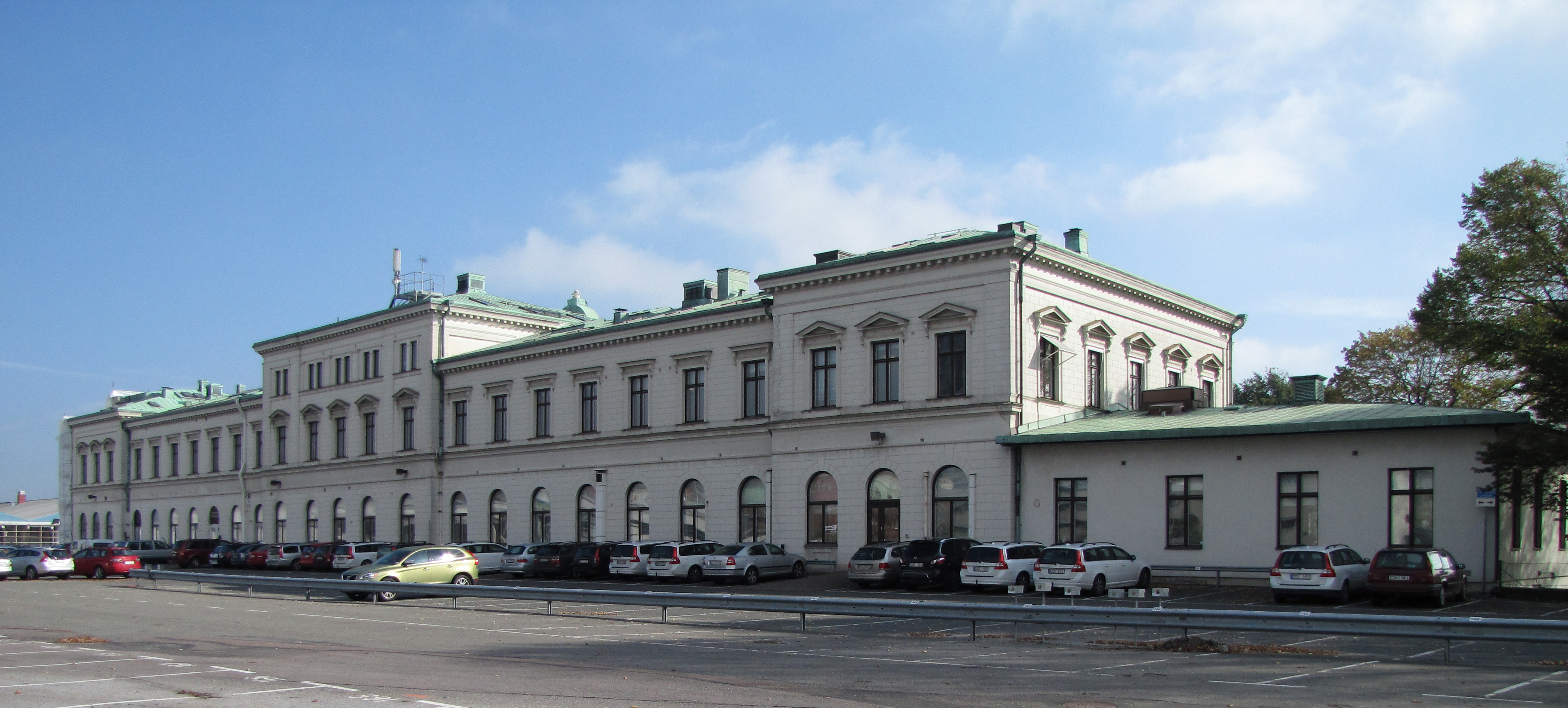 Former railway station building for "Bergslagsbanan", north side, where the tracks used to be.